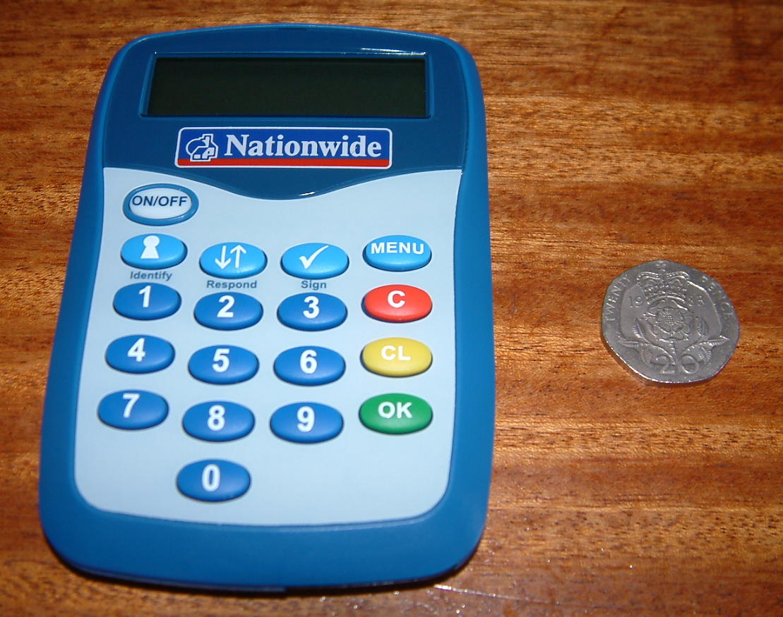 Picture of a CAP reader issued by the Nationwide Building Society in 2008. Uploaded by the photograper.